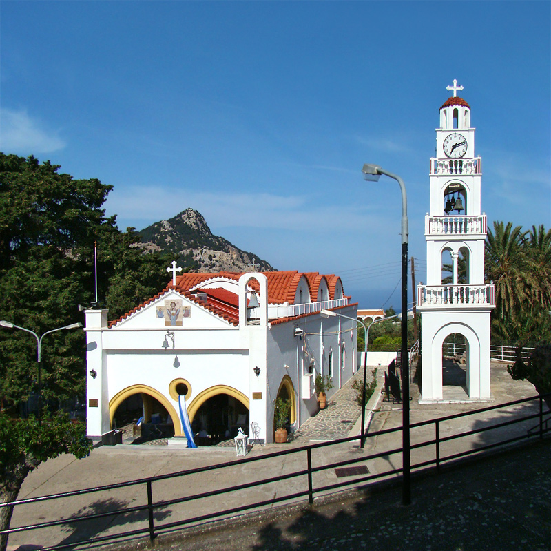 Monastery of Tsambika, Rhodes, Greece.